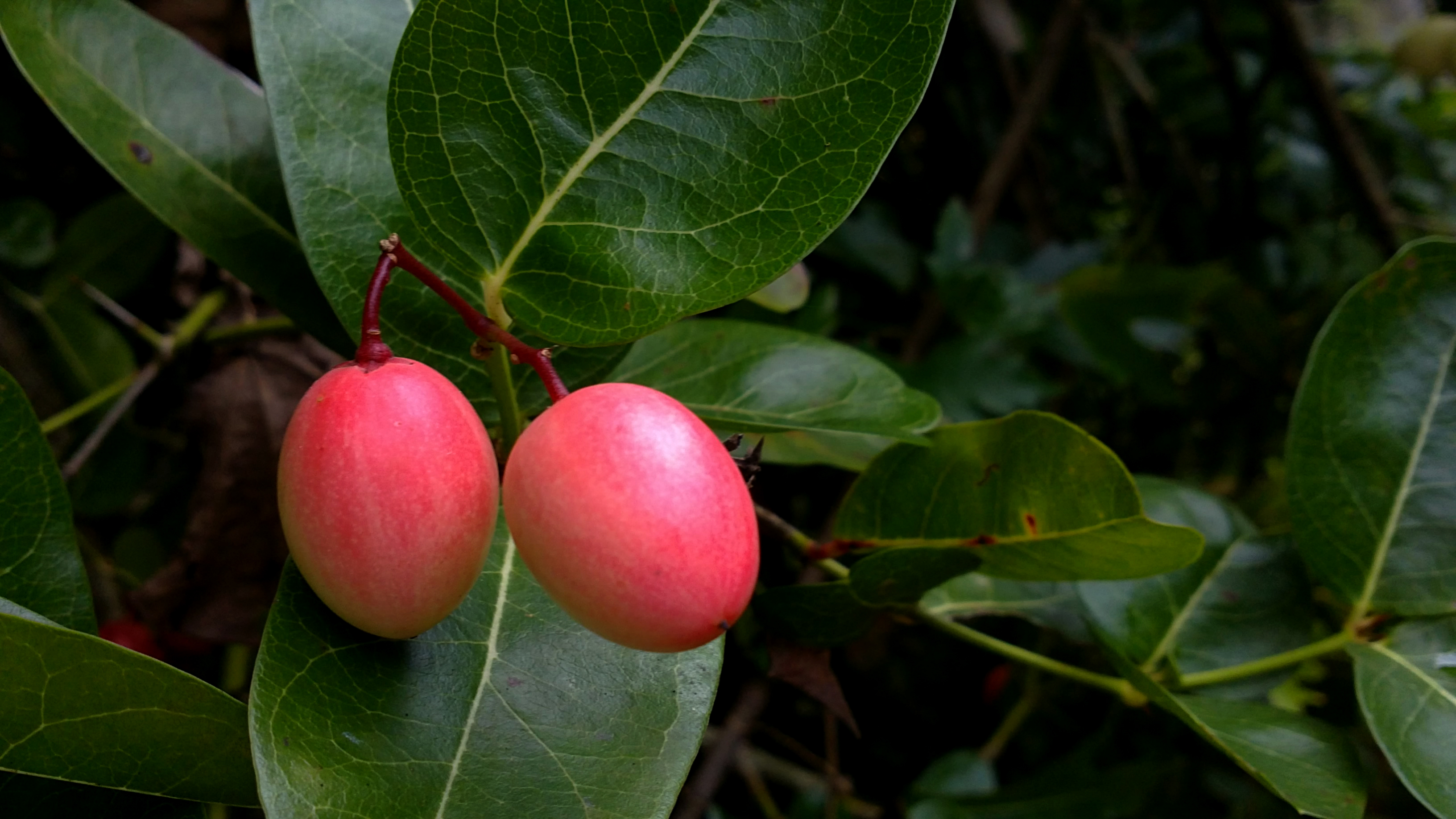 Karonta Fruit